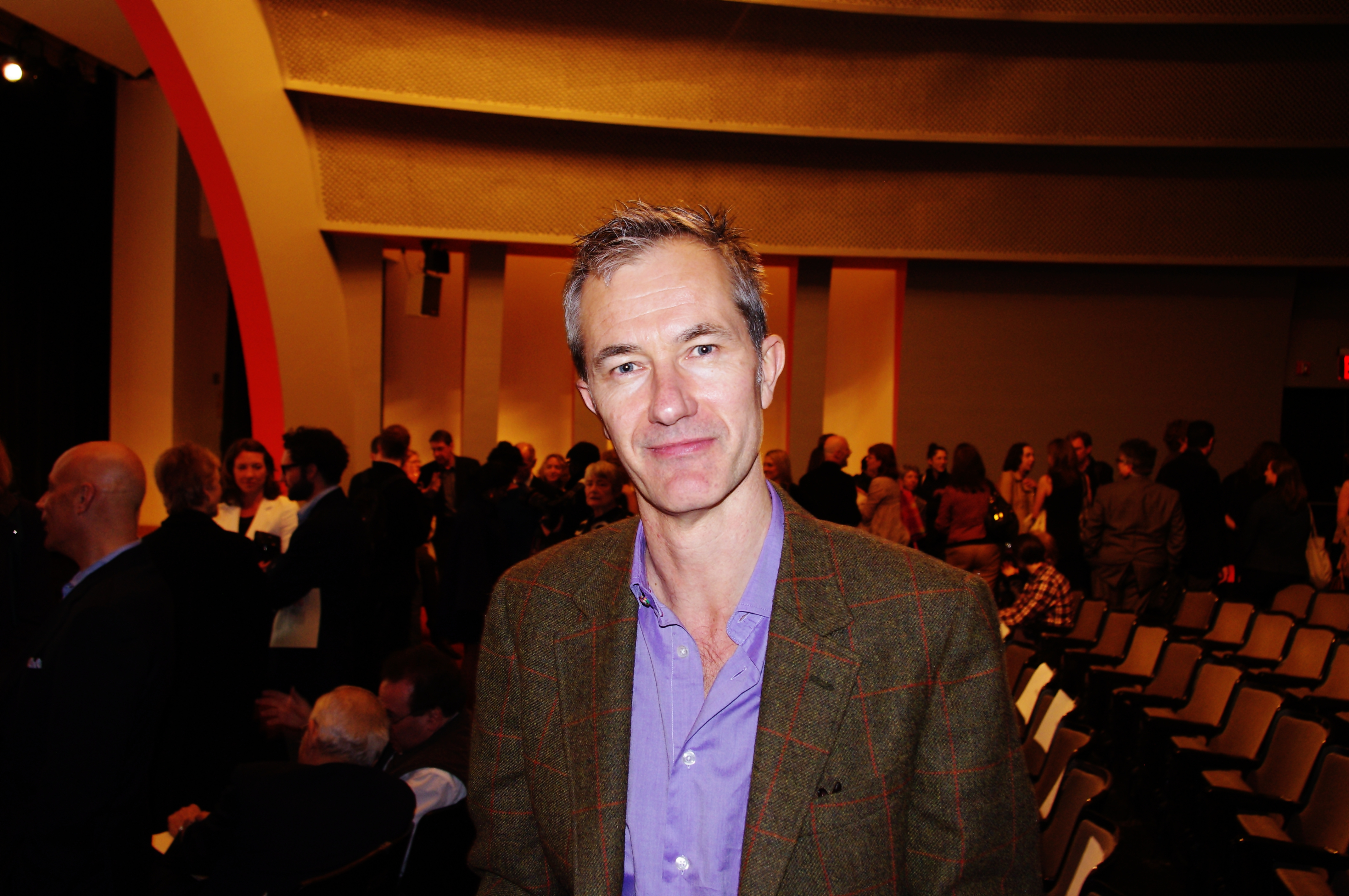 Poet Geoff Dyer at the National Book Critics Circle Awards for the 2011 publishing year.